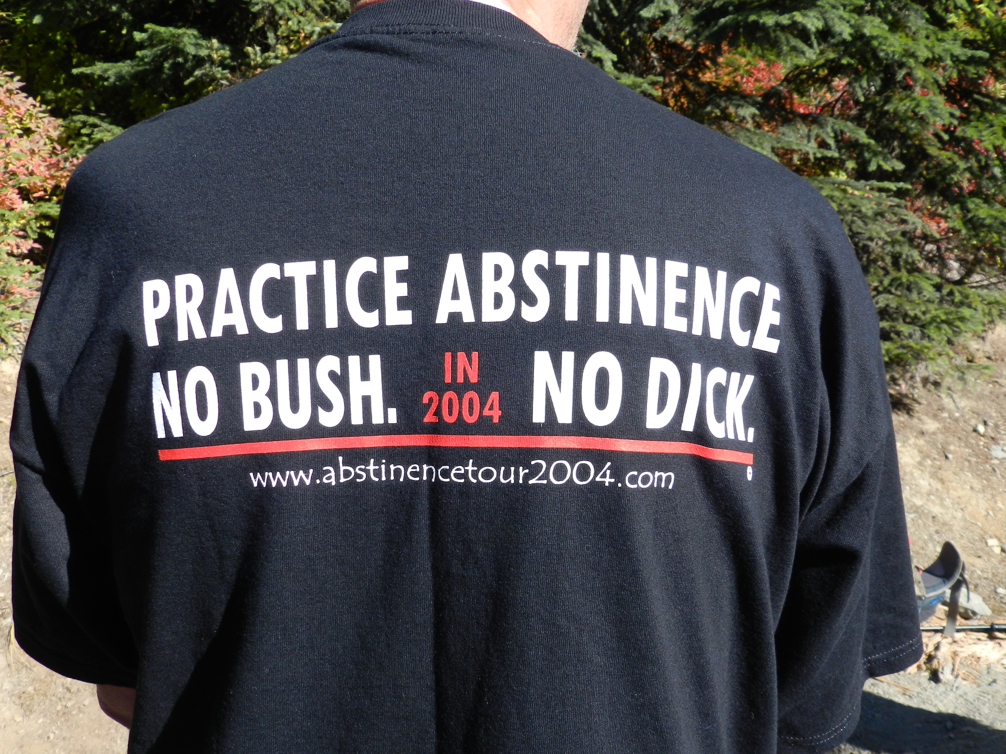 Vintage political t-shirt saying "PRACTICE ABSTINENCE / NO BUSH. NO DICK." and "IN 2004", with the url "